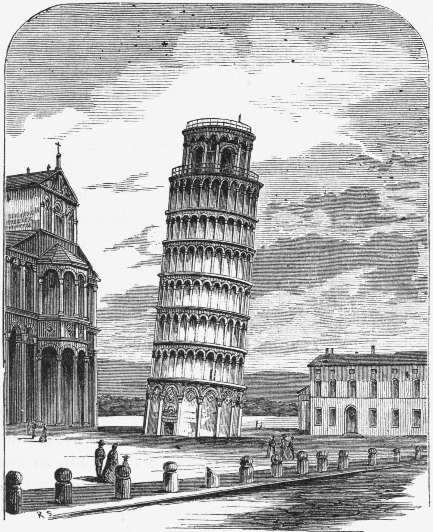 Illustrations de The Innocents Abroad, 1869.